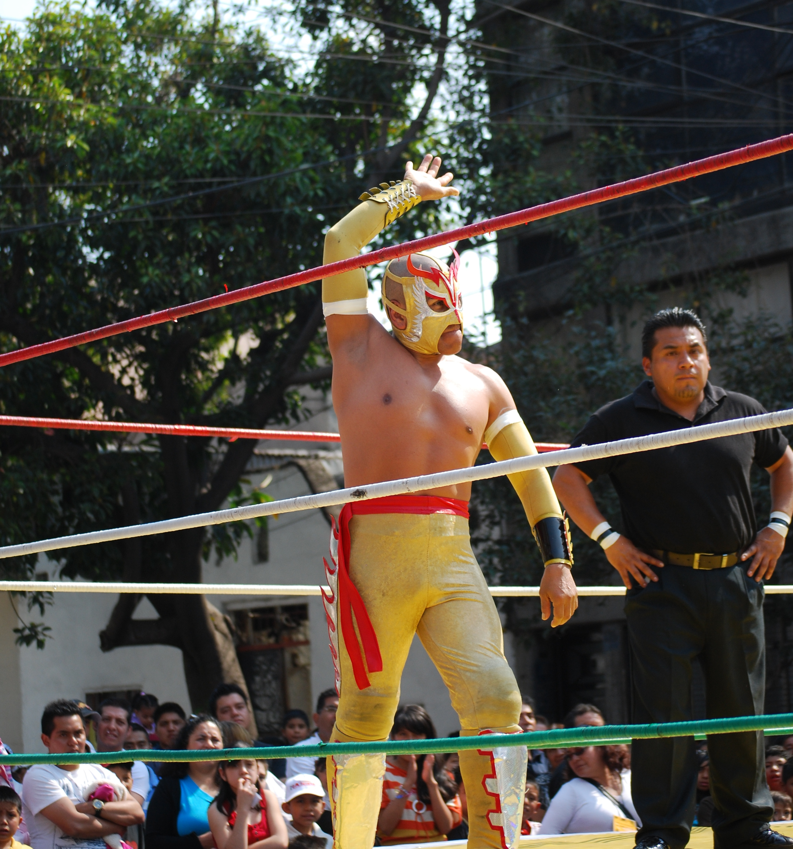 First match at a CMLL lucha libre event part of Festival Día de Reyes Territorial Obrera Doctores in Mexico City